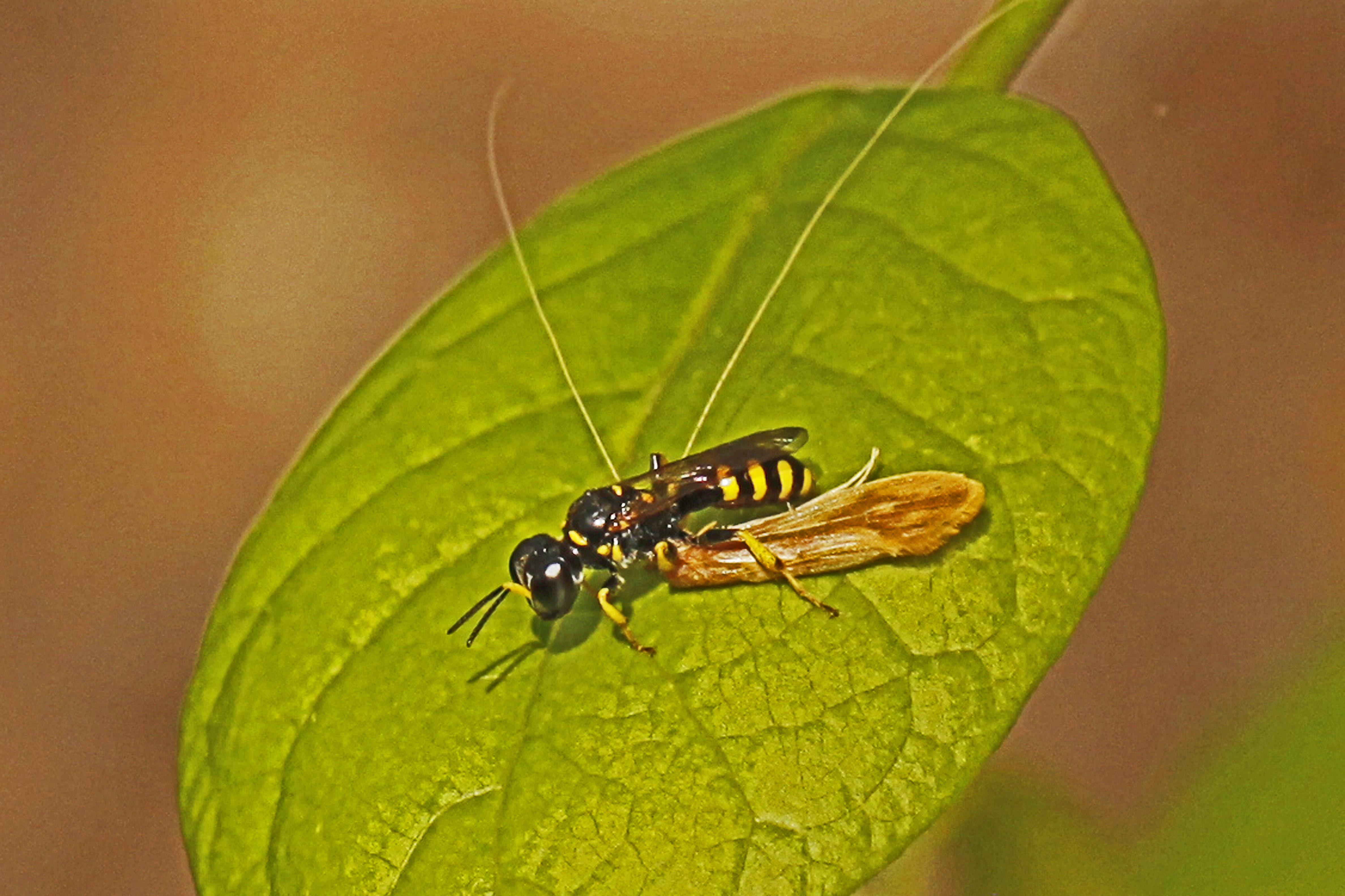 Crossocerus nitidiventris with prey, Leesylvania State Park, Woodbridge, Virginia. This isn't a great picture, but according to Bugguide, this is the first time this fairly uncommon species has been recorded eating anything other than crane flies. Who knew?